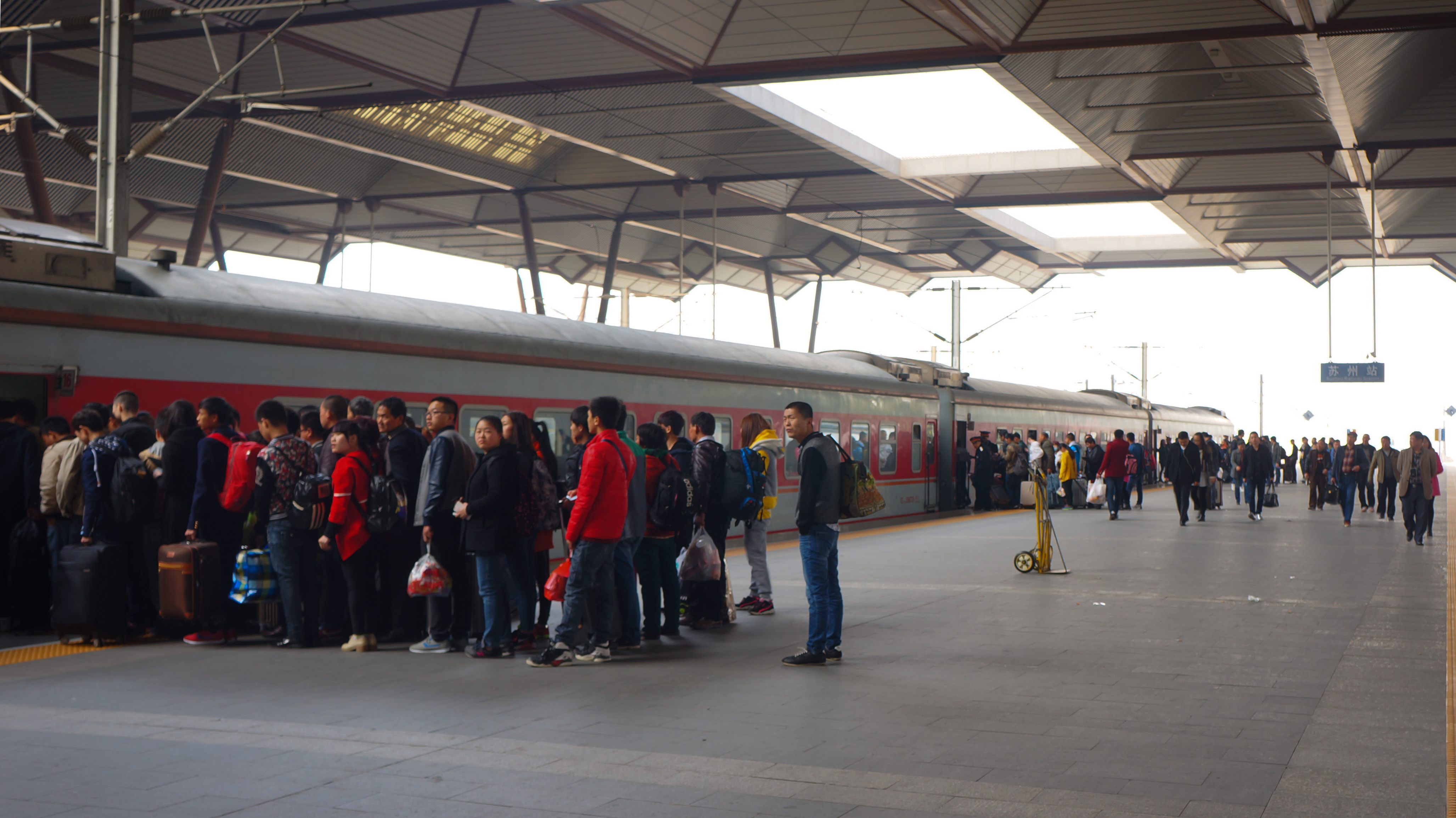 201603 K560 at Suzhou Station